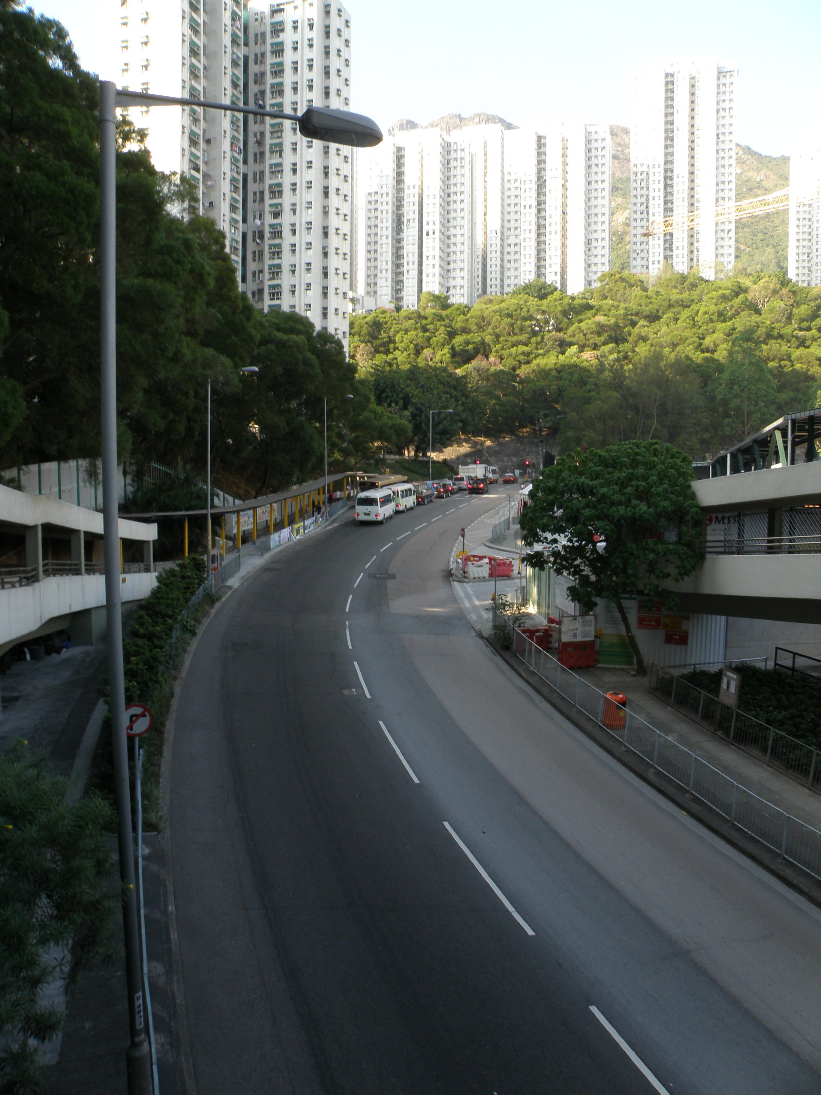 Ma Chai Hang Road in Wong Tai Sin, Hong Kong.